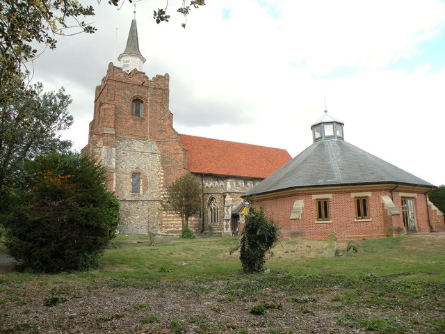 St. Mary's church in Maldon This church stands close to the Blackwater estuary. It dates back to the year 1130 and is said to stand on the site of Saxon church. Most of what is seen today dates from the 13th century. The top half of the 14th century tower collapsed in 1605 and rebuilt in brick in 1638. Some changes took place during the Victorian restoration and the new building, on the right of the picture, is a new meeting place known as the Octagon.